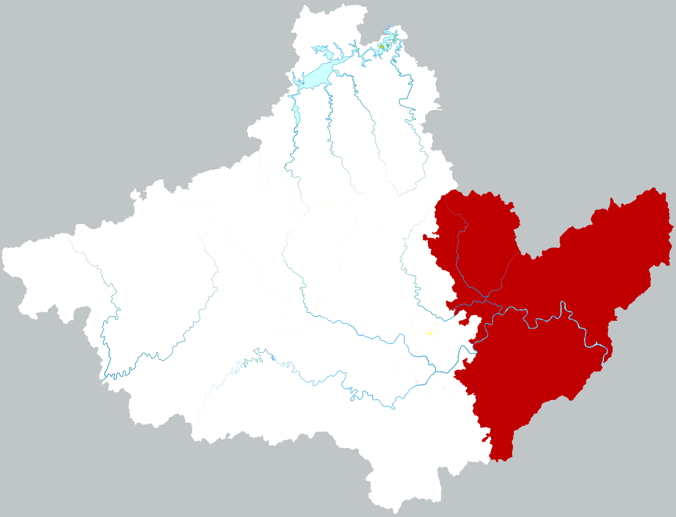 Location of She county in Huangshan city, China